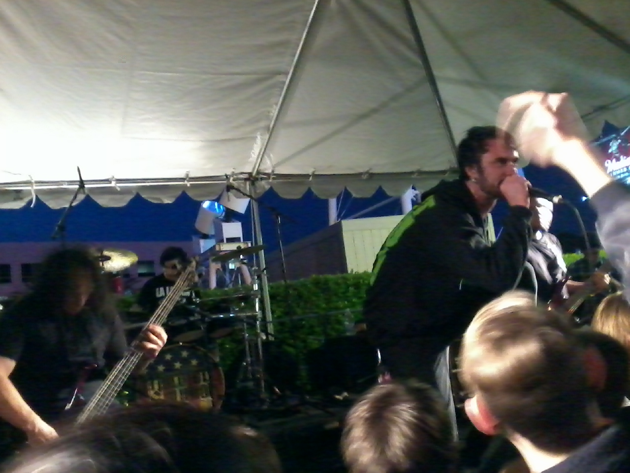 Molotov Solution performing at Metalfest V in Anaheim, California